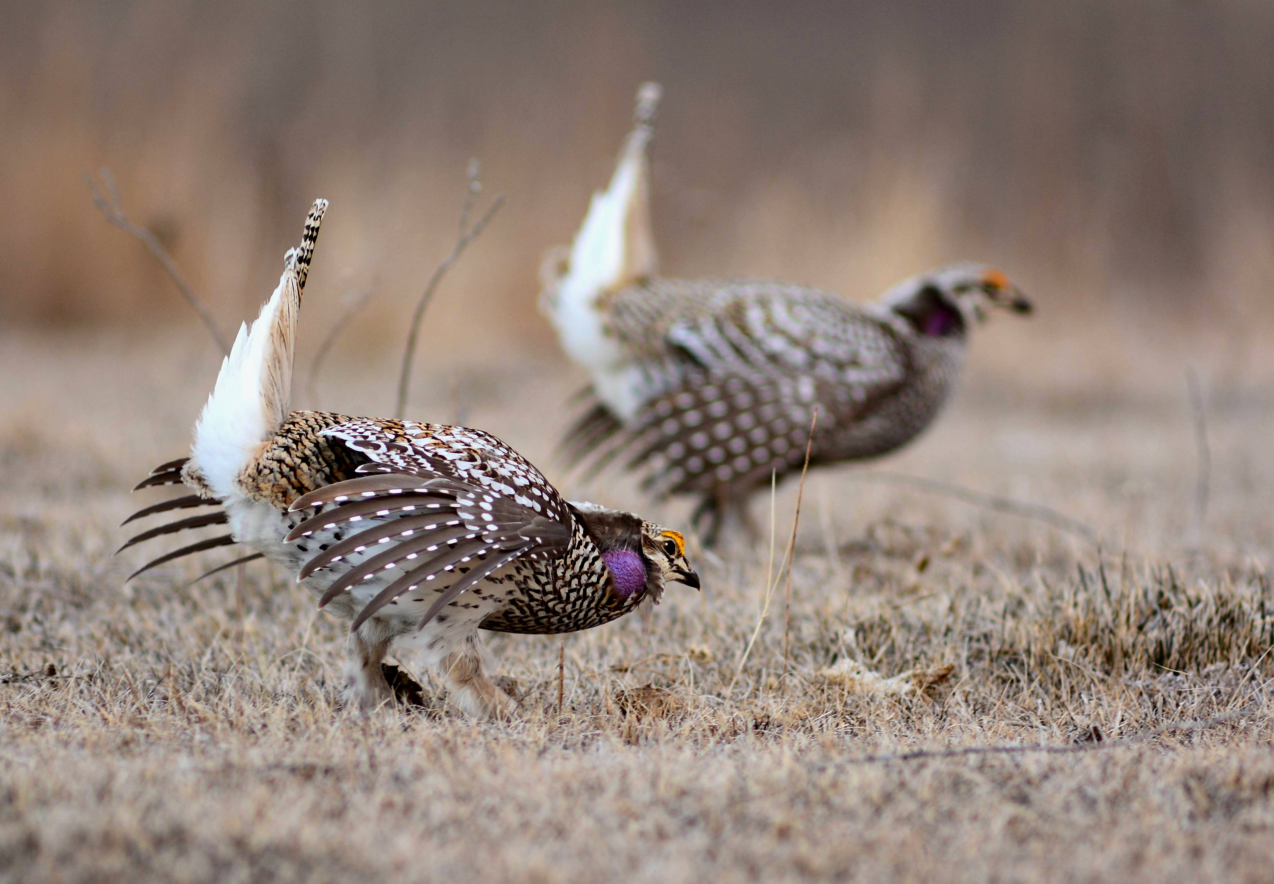 In the spring, sharp-tailed grouse form mating grounds, or leks, where they congregate to compete for territories and perform mating displays for visiting females. This crowded scene leads to fighting among the males as they attempt to outcompete one another and win the affections of the onlooking females. Photo Credit: Rick Bohn